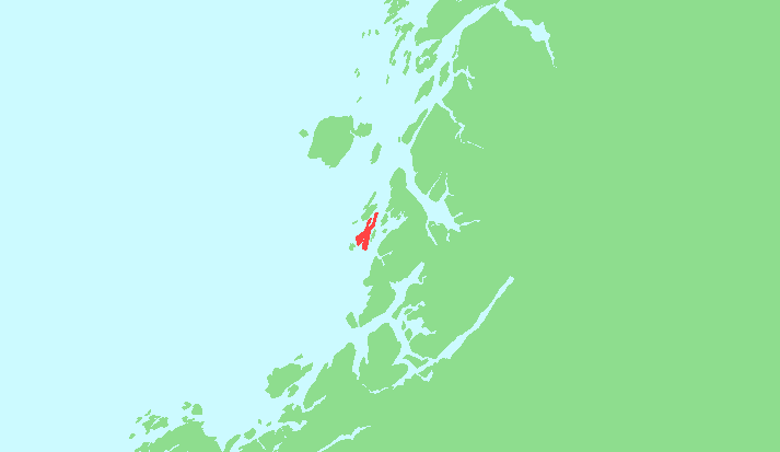 Locator map of Torget, Nordland, Norway